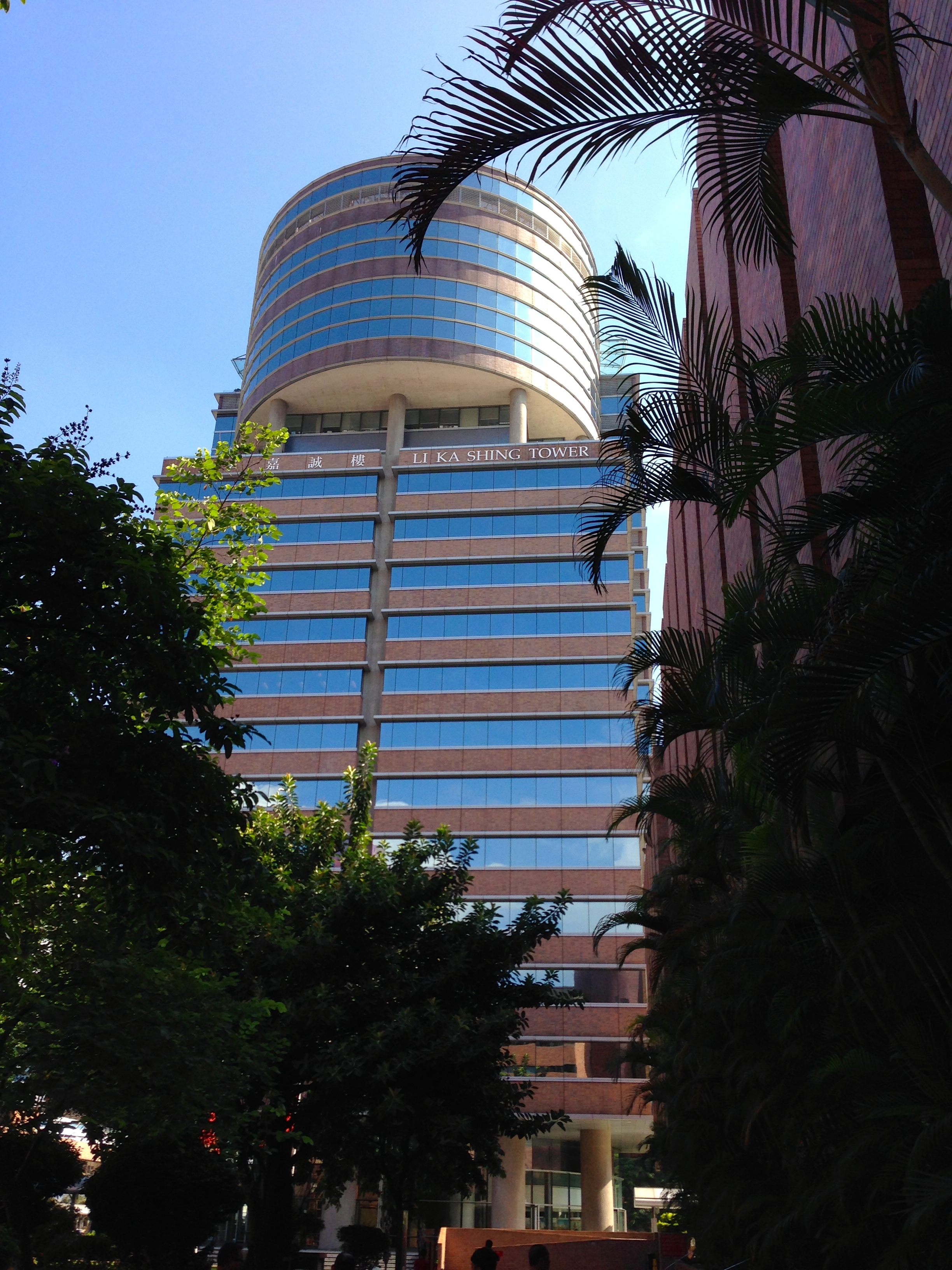 Hong Kong Polytechnic University Li Ka Shing tower - photo taken during Wikimania 2013.